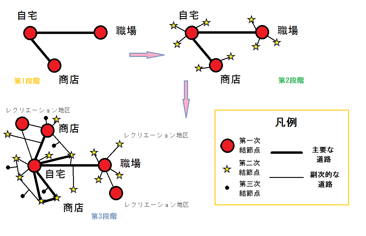 Anchor-poiot theory by Reginald Golledge.